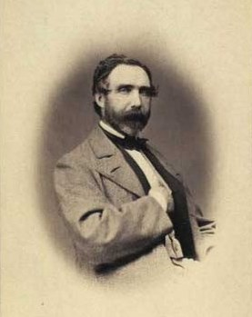 Isaac (or Isac) Wilhelm Tegner (1815-1893), Danish engraver